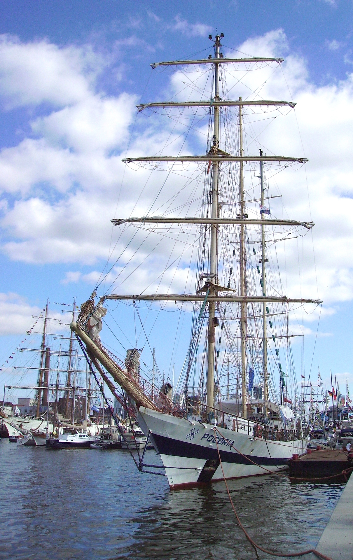 The Polish barquentine Pogoria in the port of Bremerhaven, Germany